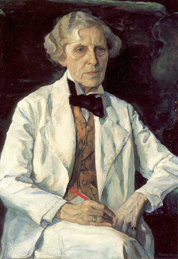 Elizaveta Kruglikova (1865-1941)